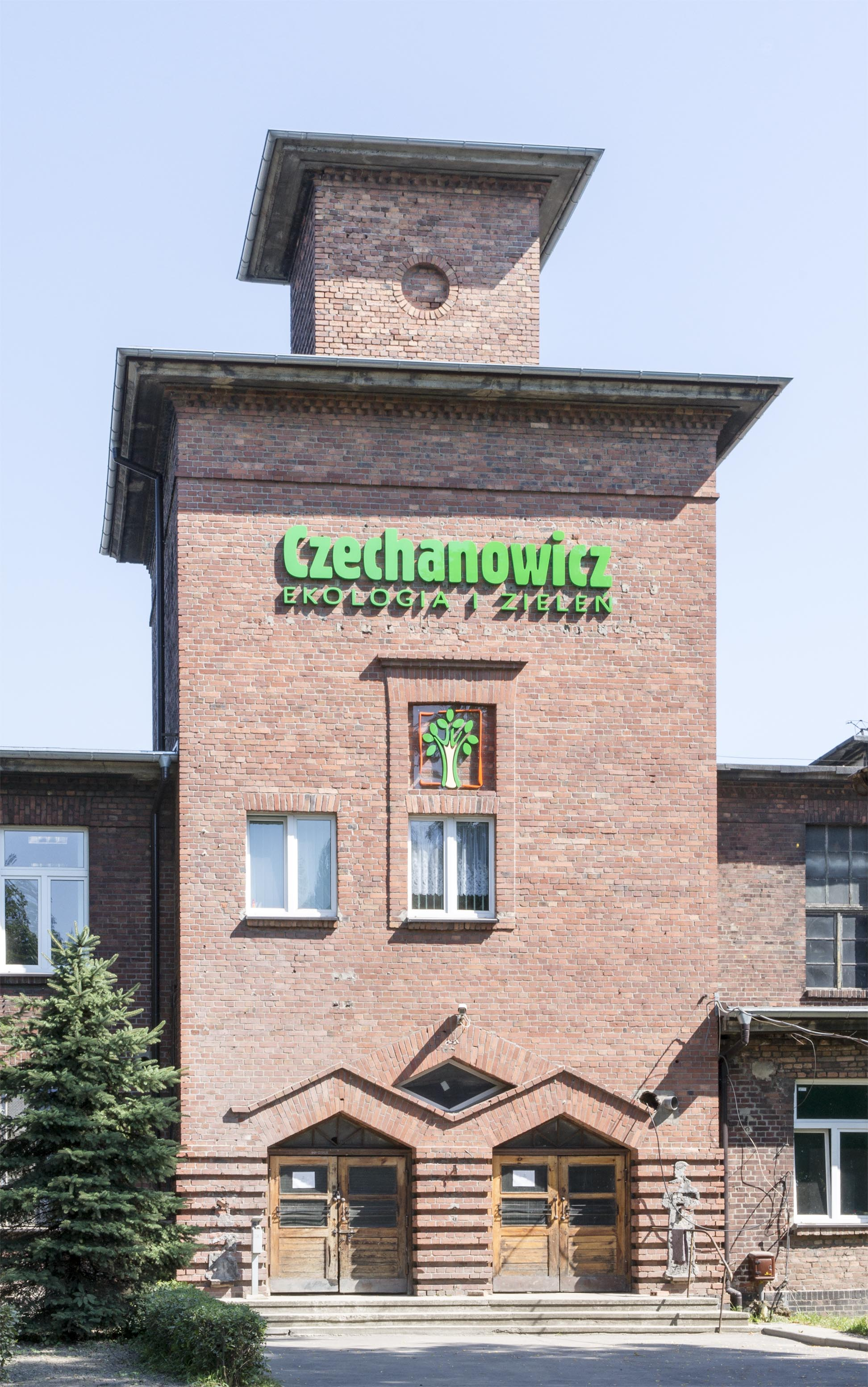 Mine Michal Shaft North II